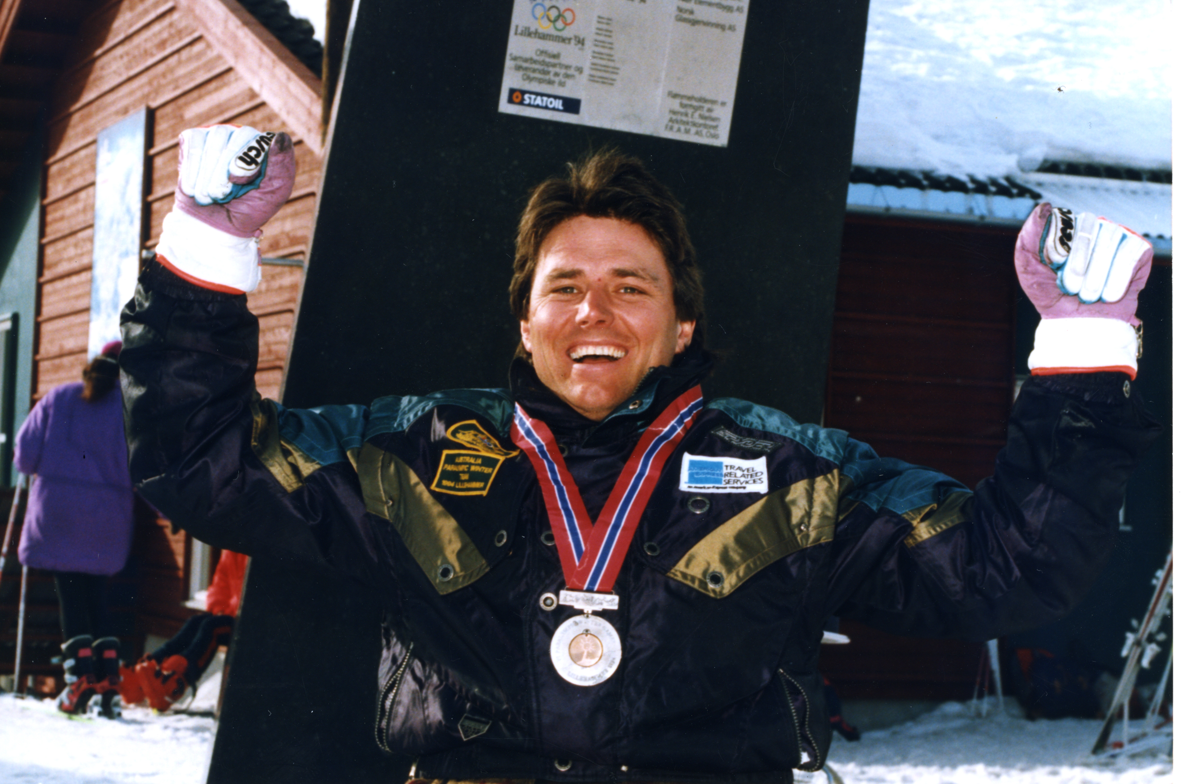 Australian Paralympic athlete M.Norton at the 1994 Winter Games